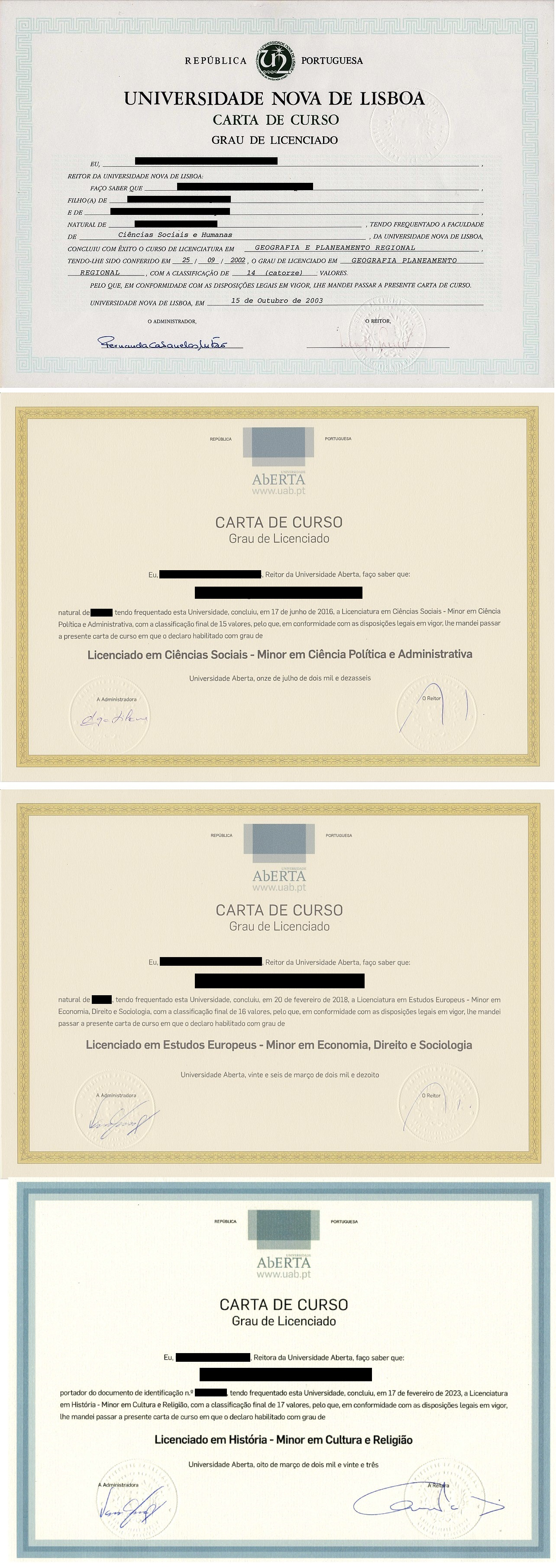 Examples of portuguese (under)graduate diplomas